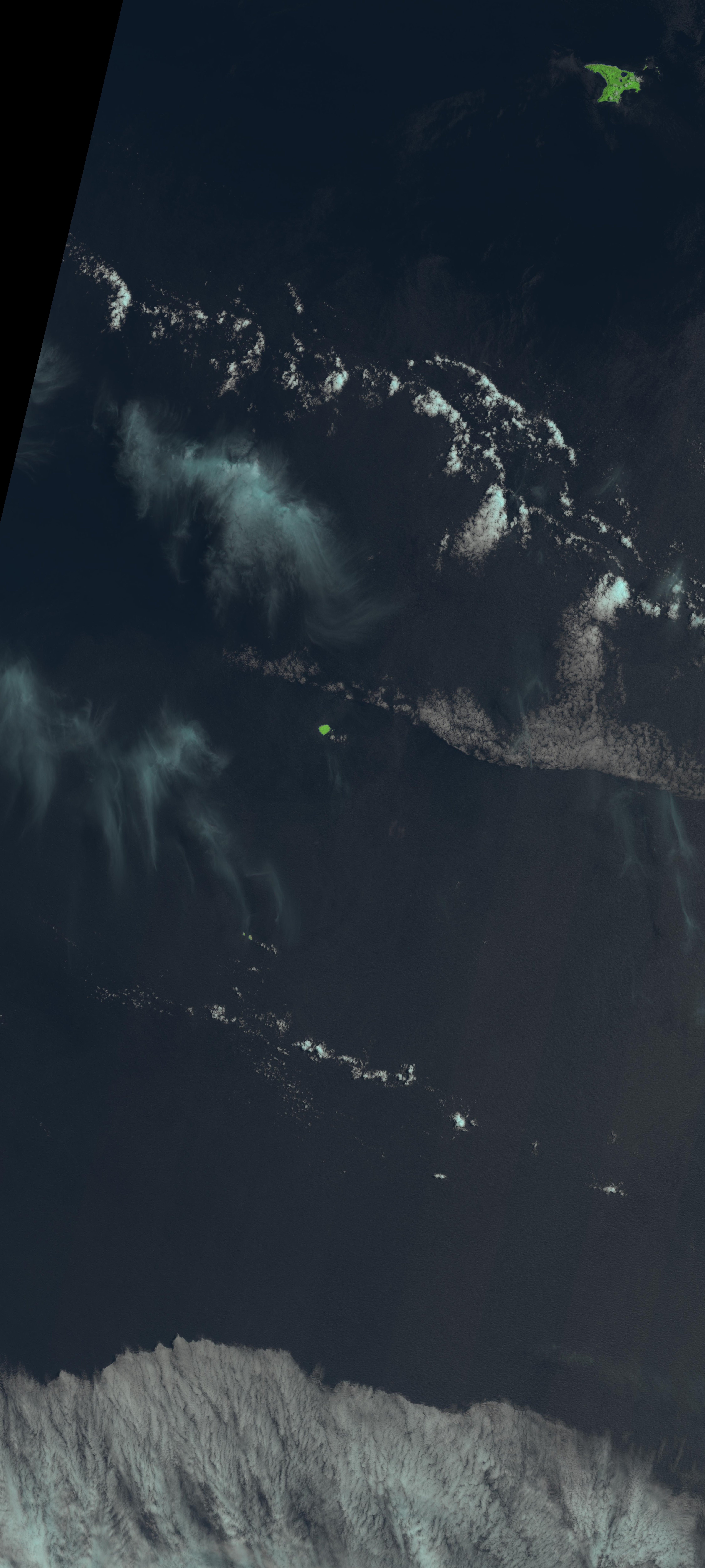 Kermadec Islands arc (New Zealand), mosaic of Landsat 8 images